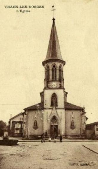 Postcard from France - Department of "Les Vosges" (88) - Thaon-les-Vosges, the church